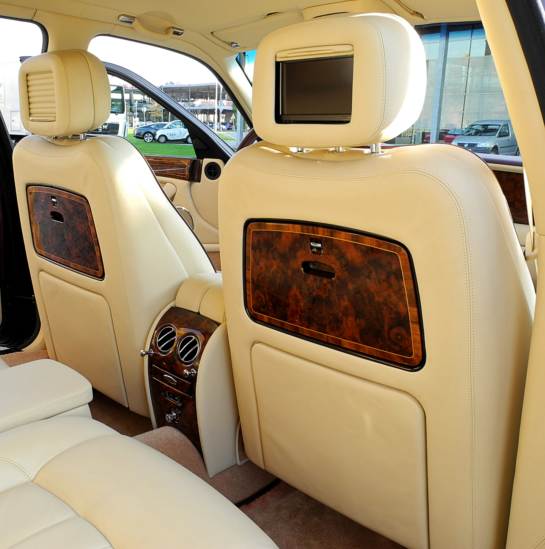 Bentley Arnage R Mulliner (Facelift)